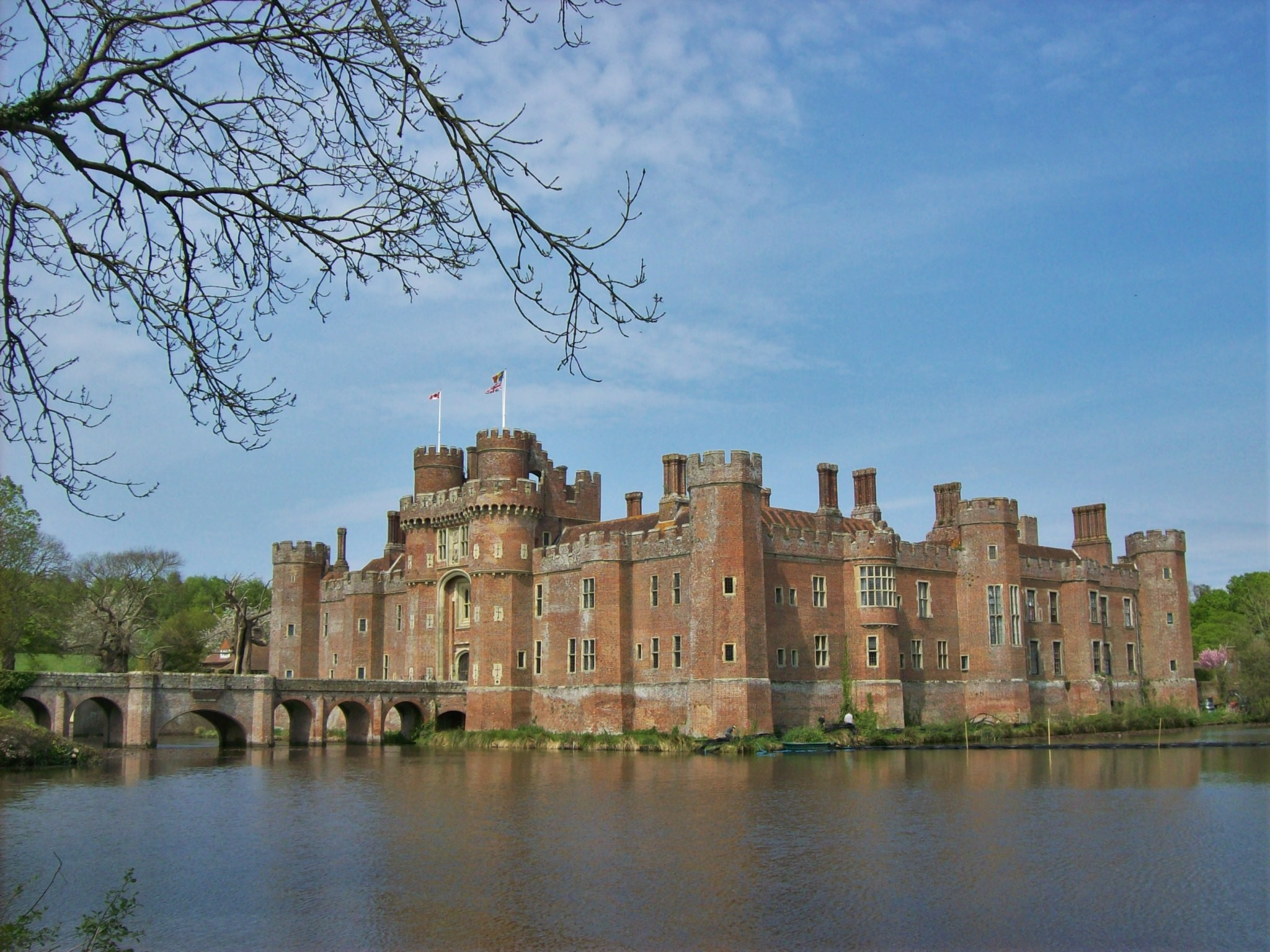 Herstmonceux Castle